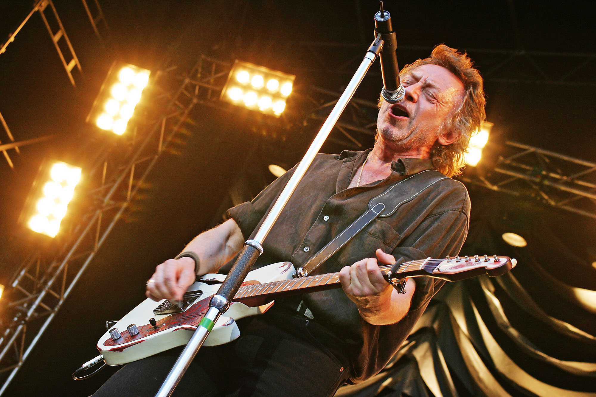 Ulf Lundell at Borgholm castle,Öland, Sweden.